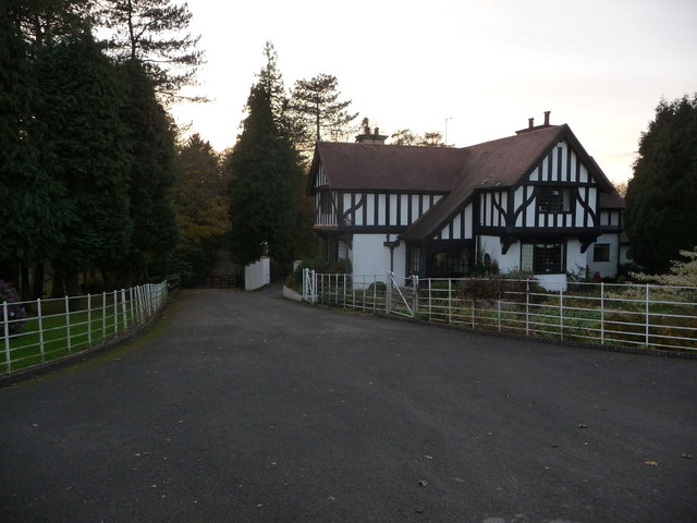 Tredean Gatehouse, Devauden